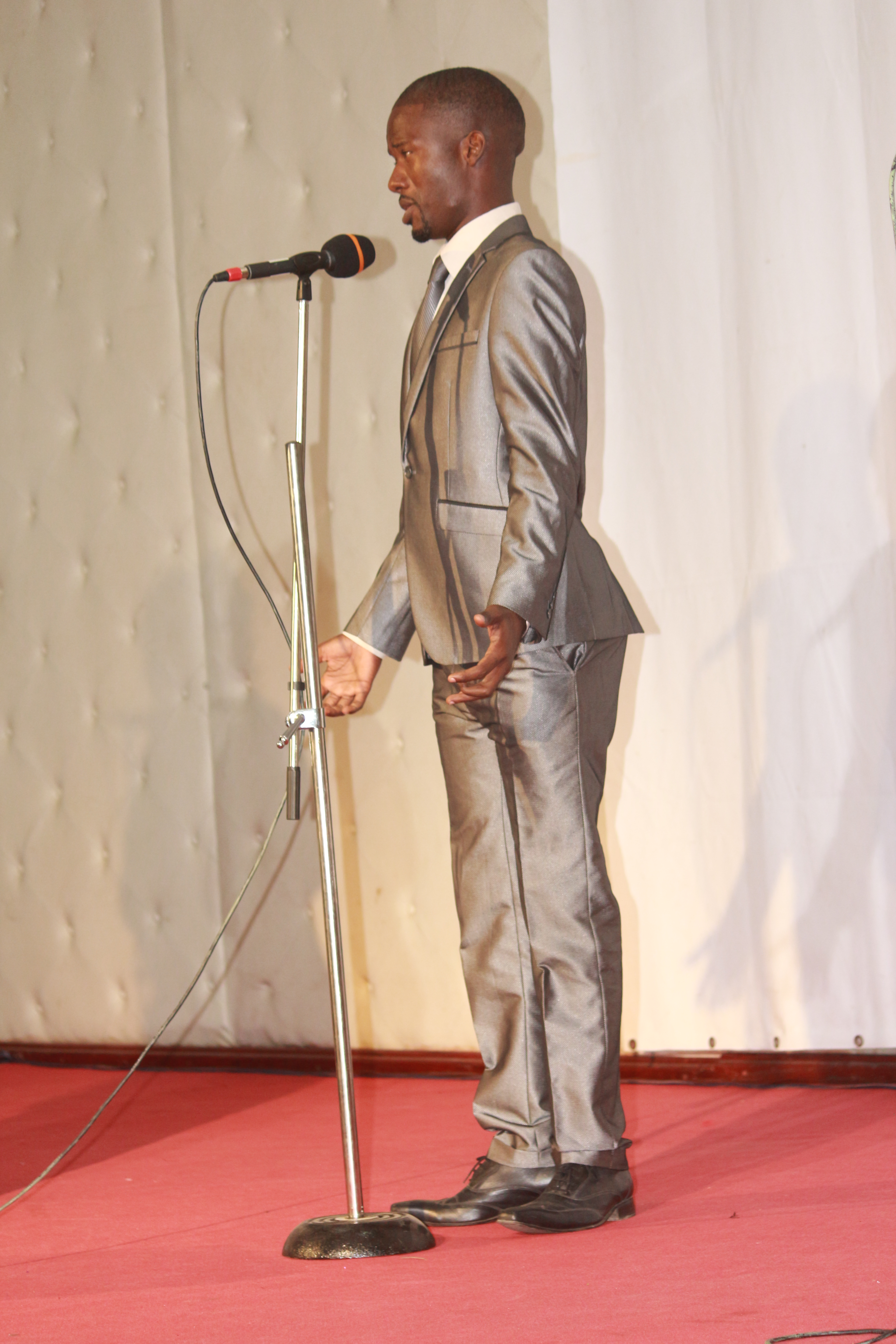 Une comédien en plein one man show This is an image of "African people at work" from Cameroon